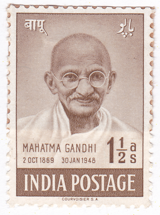 A commemorative postage stamp on Mahatma Gandhi issued by India Post Date of Issue: 15th August 1948 Denomination: 1½ anna Category: Personality